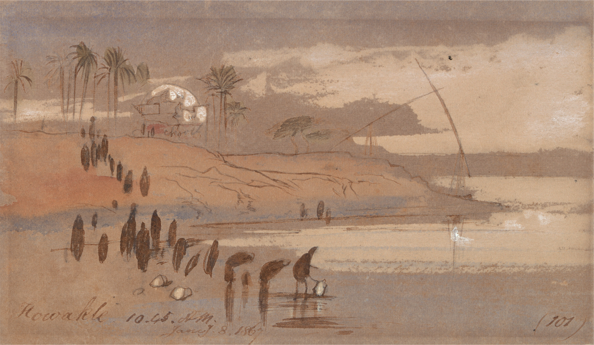 "Howakte 10.45 AM" by Edward Lear, watercolour with pen in brown ink and gouache over graphite on moderately thick, slightly textured, beige wove paper. Dated January 1867. 3 1/8 inches x 5 1/4 inches (7.9 cm x 13.3 cm). Courtesy of the Yale Center for British Art, Yale University, New Haven, Connecticut.